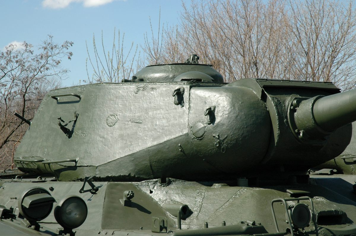 Turret of the Iosif Stalin IS-2 Soviet heavy tank (Museum of Great Patriotic War, Kyiv)